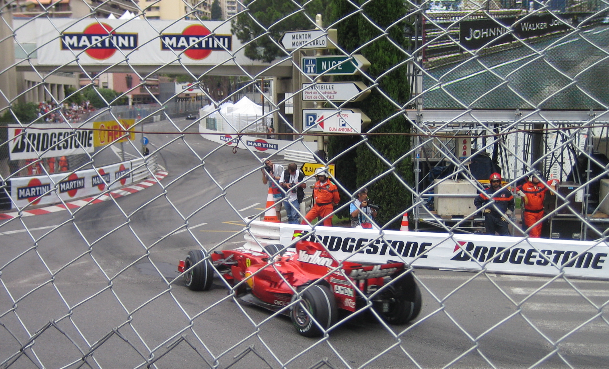 Kimi Raikkönen driving a Ferrari F2007 at the Anthony Noghès corner during the 2007 Monaco Grand Prix